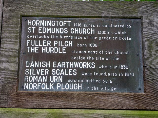 Village sign Sign, made in oak by village woodworker craftsman, explains the ancient history of the locality